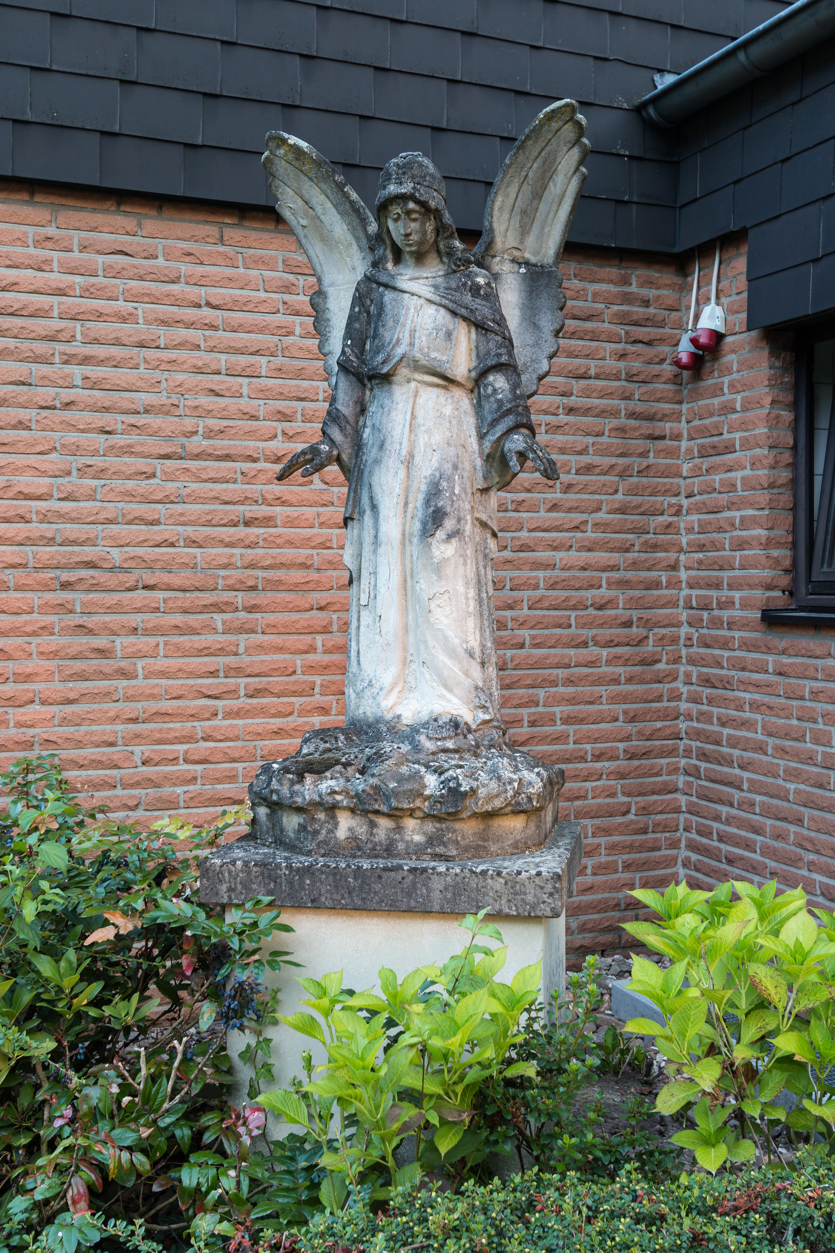 Sculpture of a Guardian Angel (or Angel of Peace) at the parish community centre “St. Bonifatius” in Schapdetten, Nottuln, North Rhine-Westphalia, Germany Sculpture TitleSchutzengelArtistUnknown artistDatebefore 1991 date QS:P,+1991-00-00T00:00:00Z/7,P1326,+1991-00-00T00:00:00Z/9